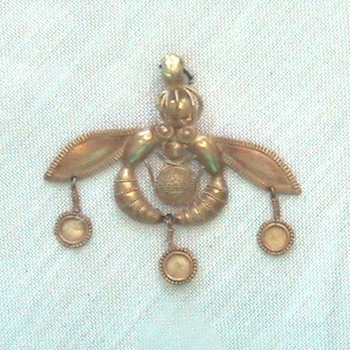 The “Bees of Malia”, identification uncertain: two bees (or hornets, or wasps) heraldically arranged around a honeycomb (or a honeycake), or eating/sucking a honey drop, or carrying a ball of mud. Gold pendant with appliqué decoration and granulation, Minoan artwork, 1700–1550 BC. Excavated by the French from the Chrysolakkos necropolis in Mallia, Crete, first published in 1930 (P. Demargne, BCH 54 (1930) pp.404-21 and pl.19), now in the Archaeological Museum of Herakleion. H. 4.6 cm (1 ¾ in.), W. 4.9 cm (1 ¾ in.).